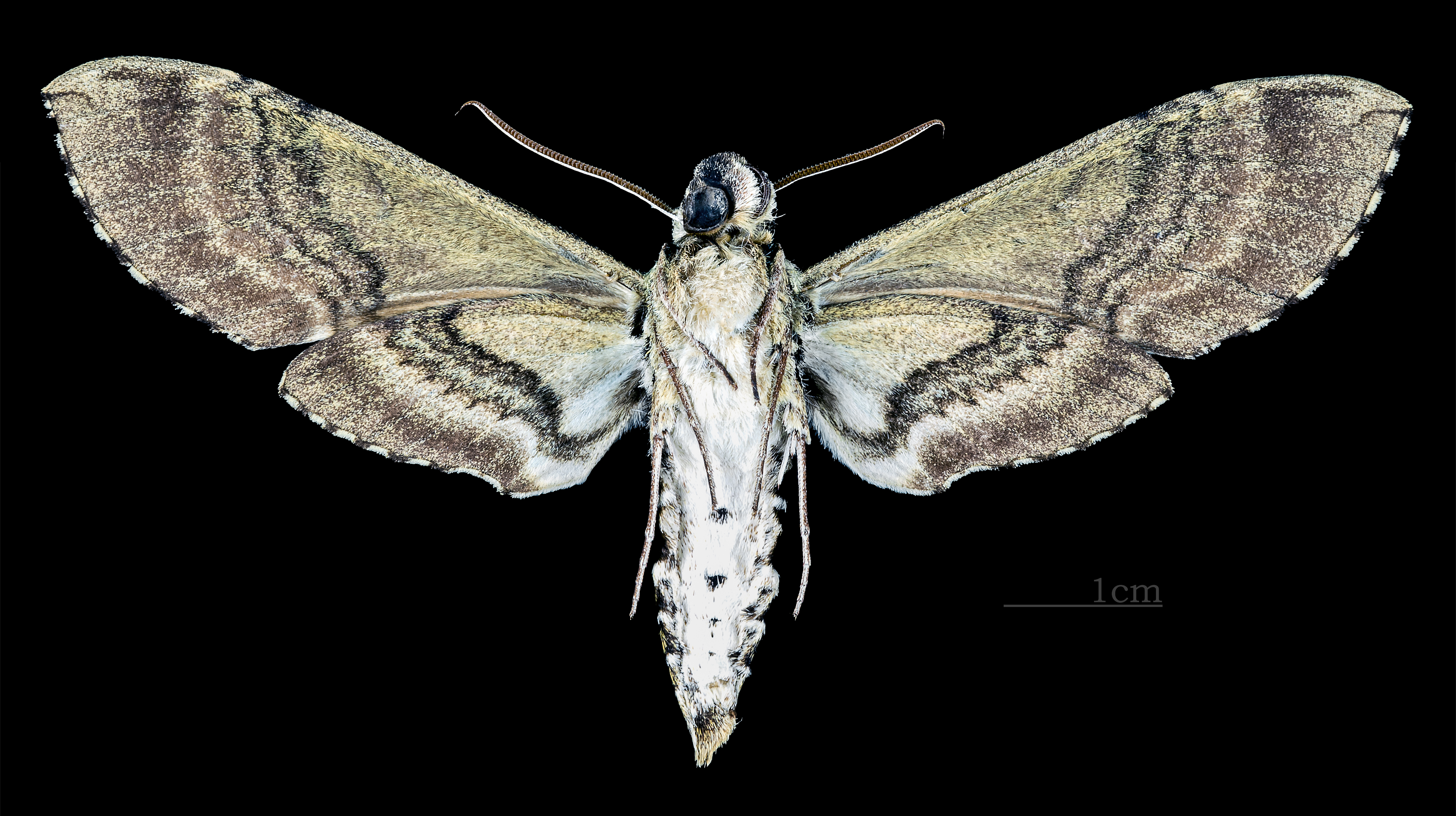 Manduca boliviana - △ Ventral side